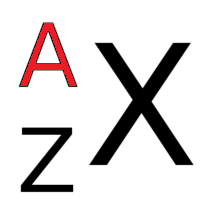 Where the mass number is located in a chemical element identity.